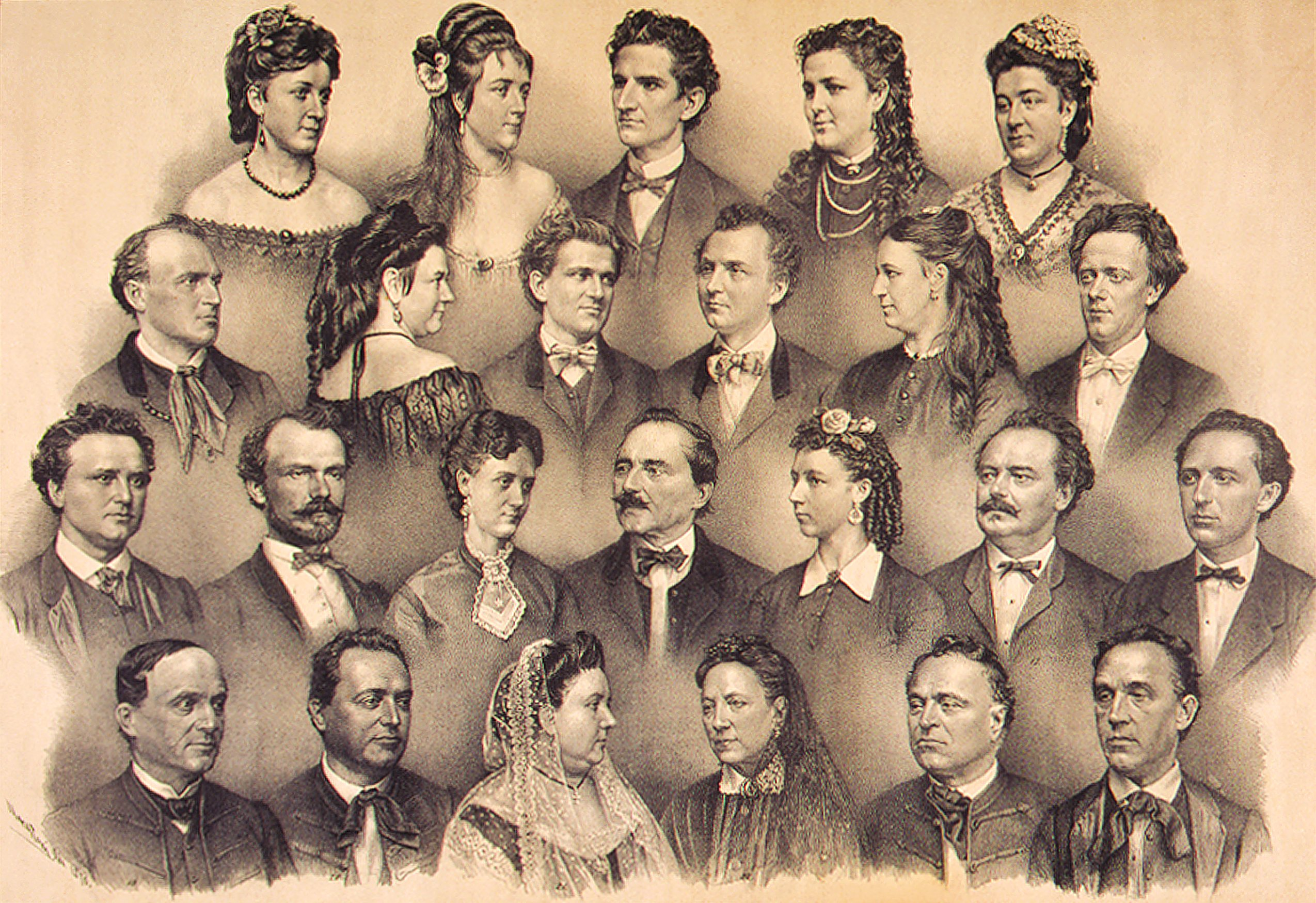 A debreceni társulat tagjai 1870-ben